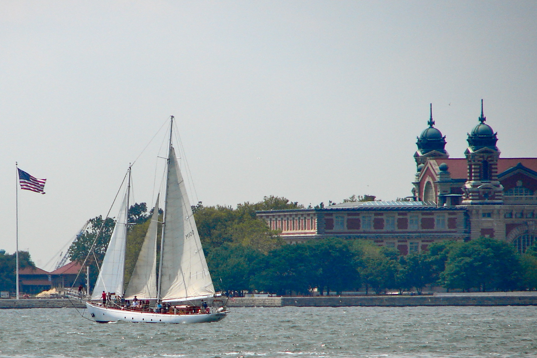 Shearwater (schooner) on the NRHP since March 9, 2009. Docks at the North Cove Marina 40°42′46″N 74°1′2″W, in New York City, New York - about 200 yards west of the World Trade Center Site. This photo, taken from near South Cove, shows the Shearwater near Ellis Island in New York Harbor.